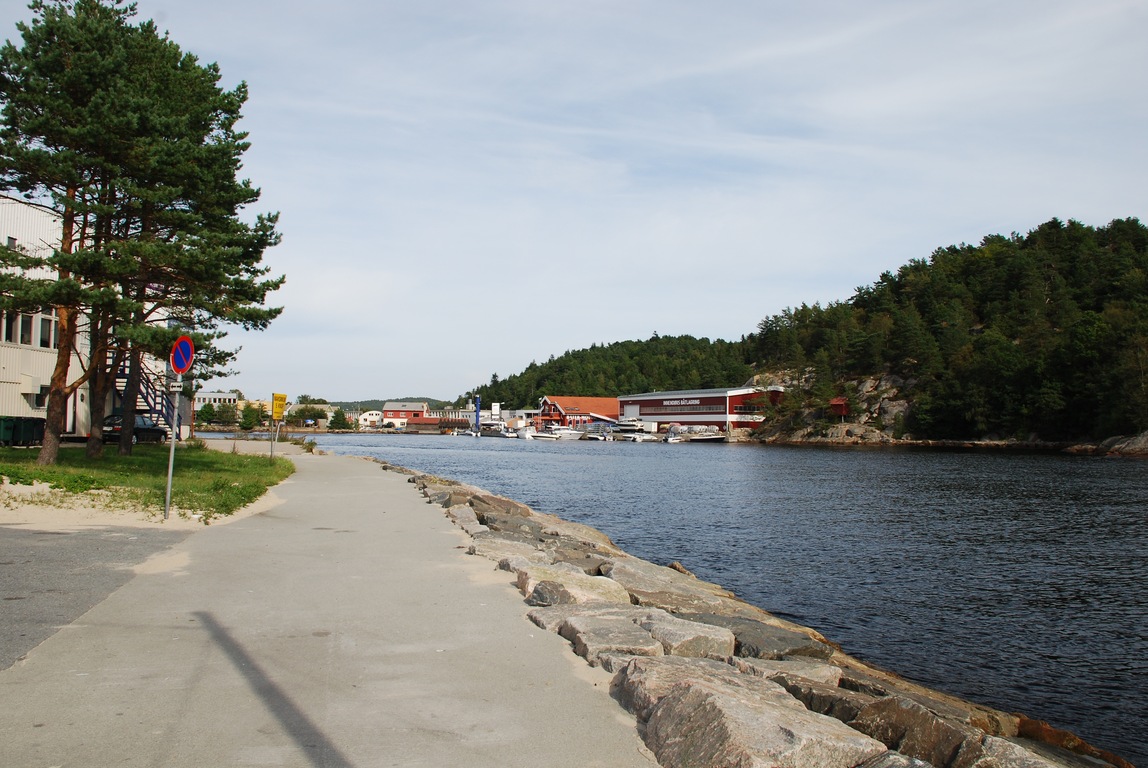 Mandalriver seen from "Piren"